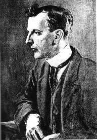 Ronald Wood, acquitted of the Camden Town Murder in 1907